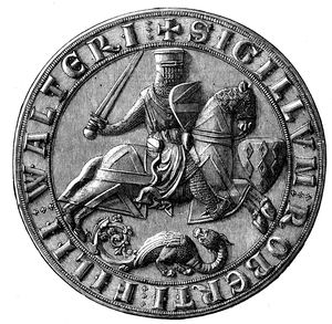 Seal of Robert Fitzwalter